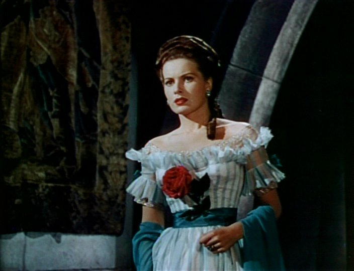 Maureen O'Hara in a screenshot from the trailer for the film The Black Swan (1942).